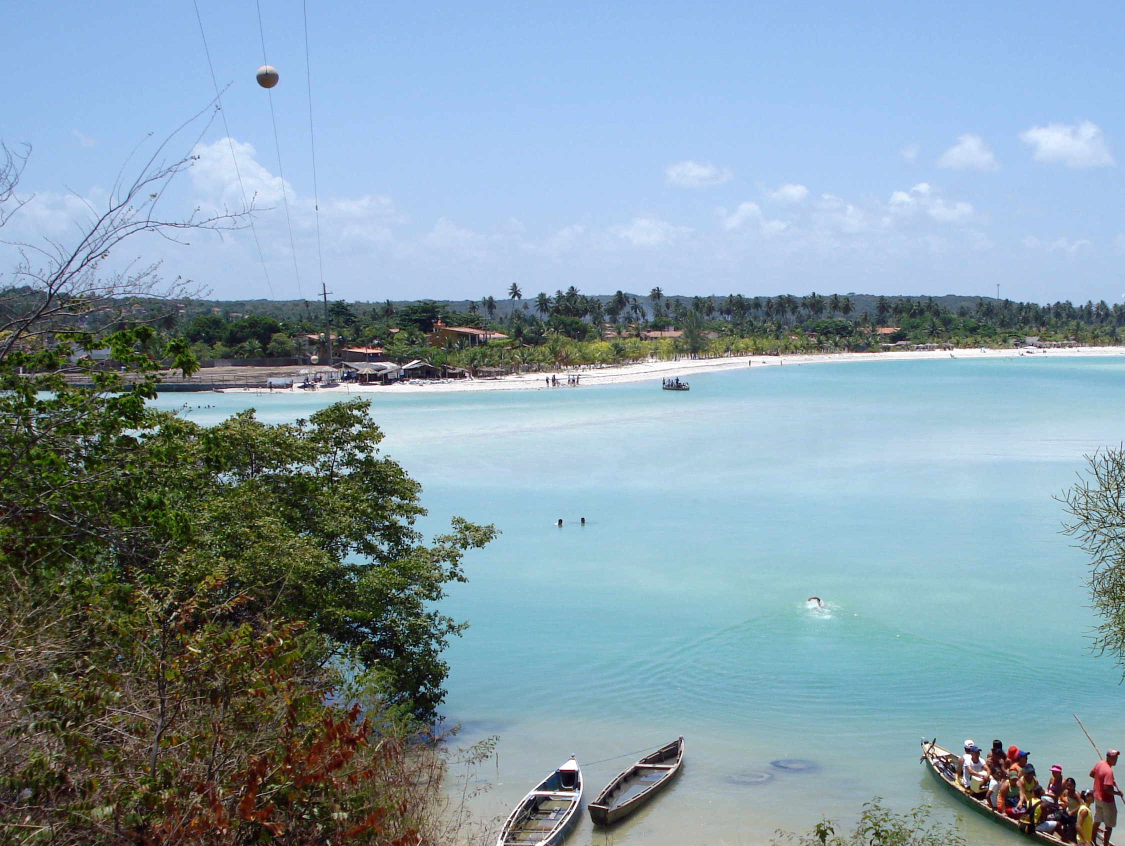 Estuary on Itamaracá Island, Brazil